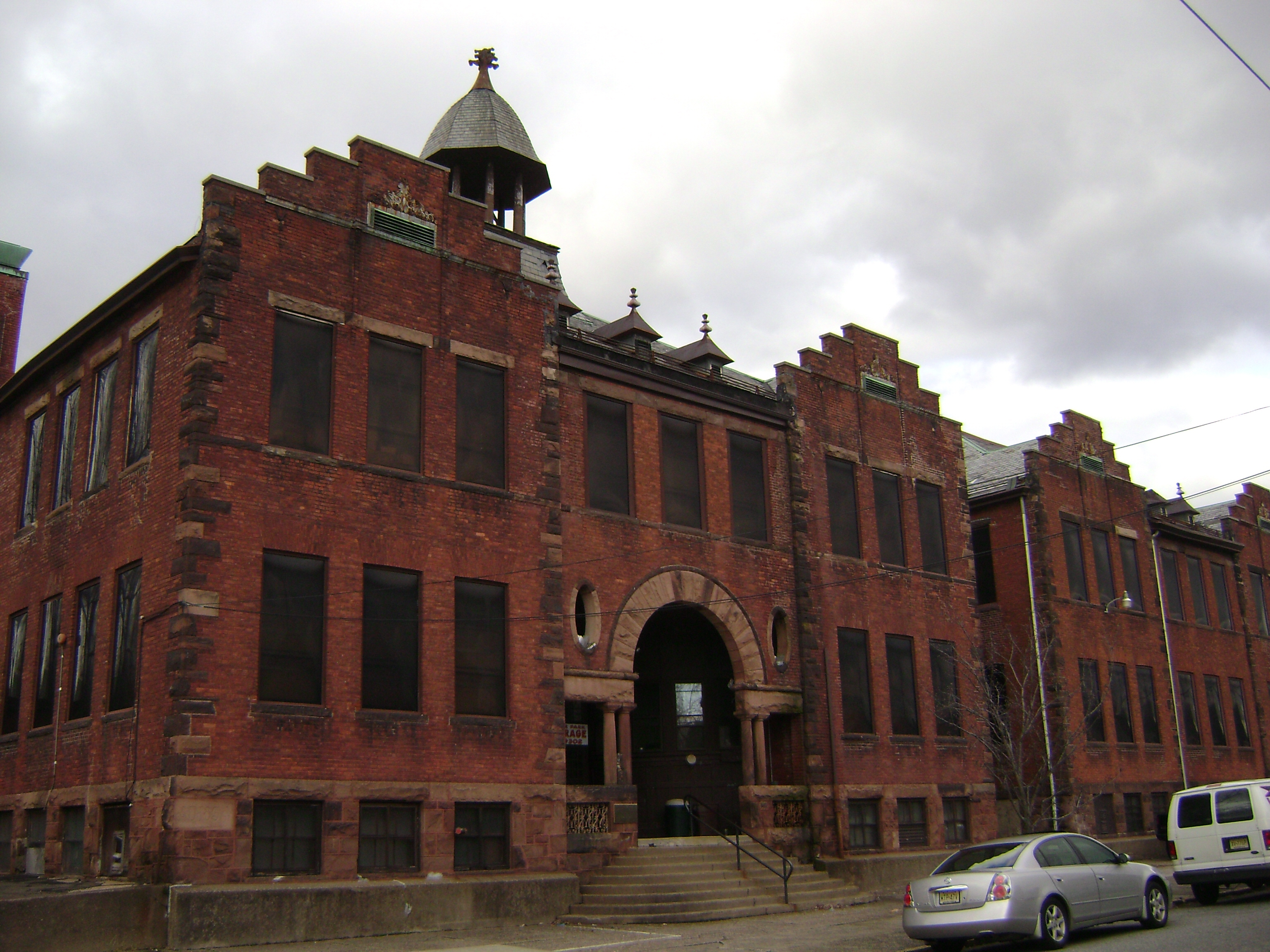 The Kossuth Street School, a National and State Historic Place located in Haledon, New Jersey.